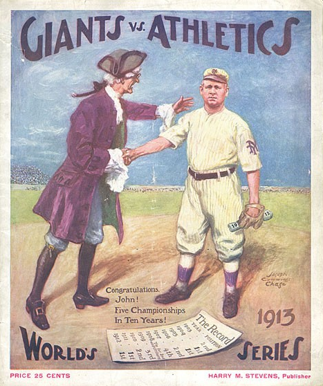 A program from the 1913 World Series